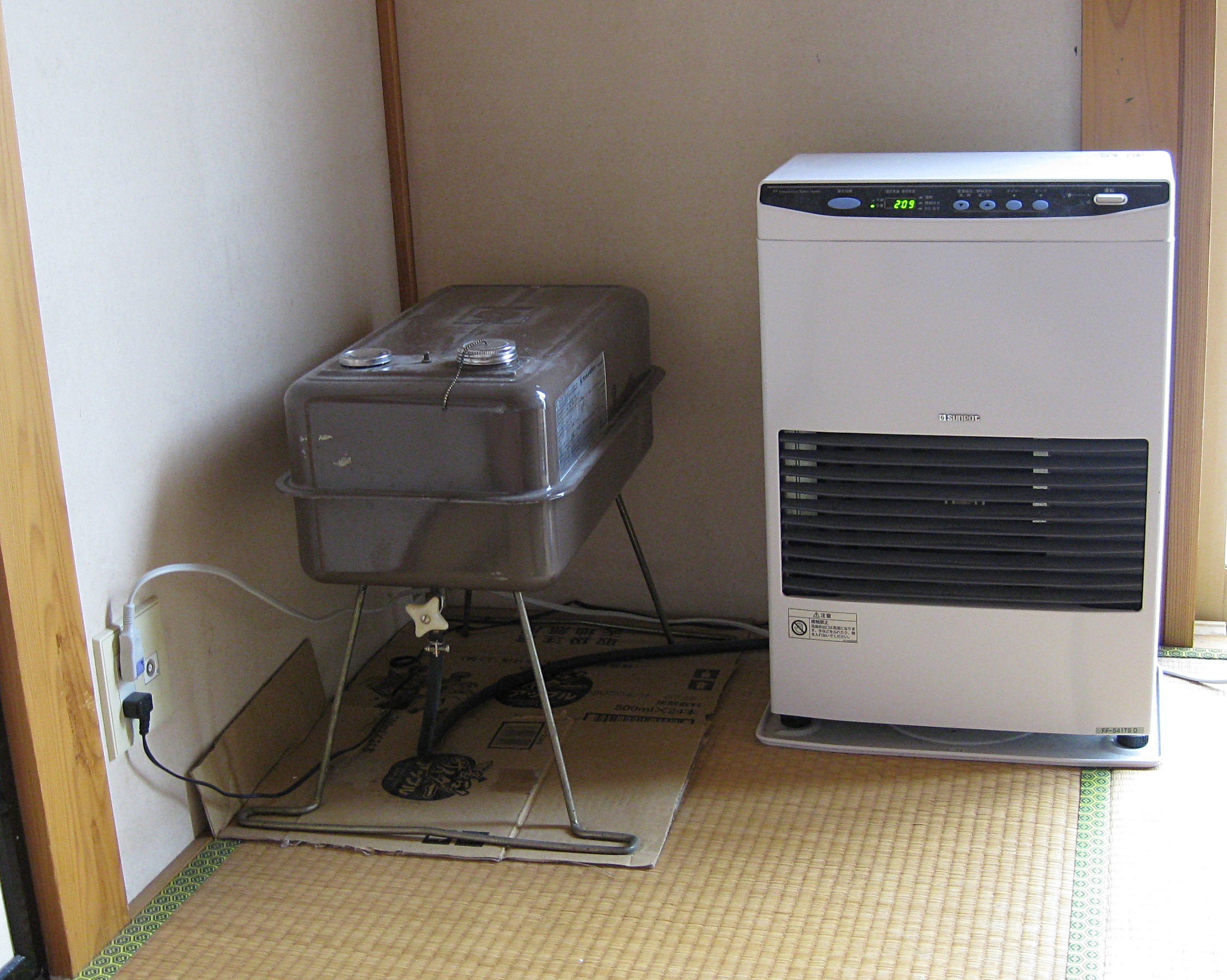 A kerosene heater and tank. This model requires electricity, has an exhaust pipe venting through the wall and outdoors, and has a 20L fuel tank.